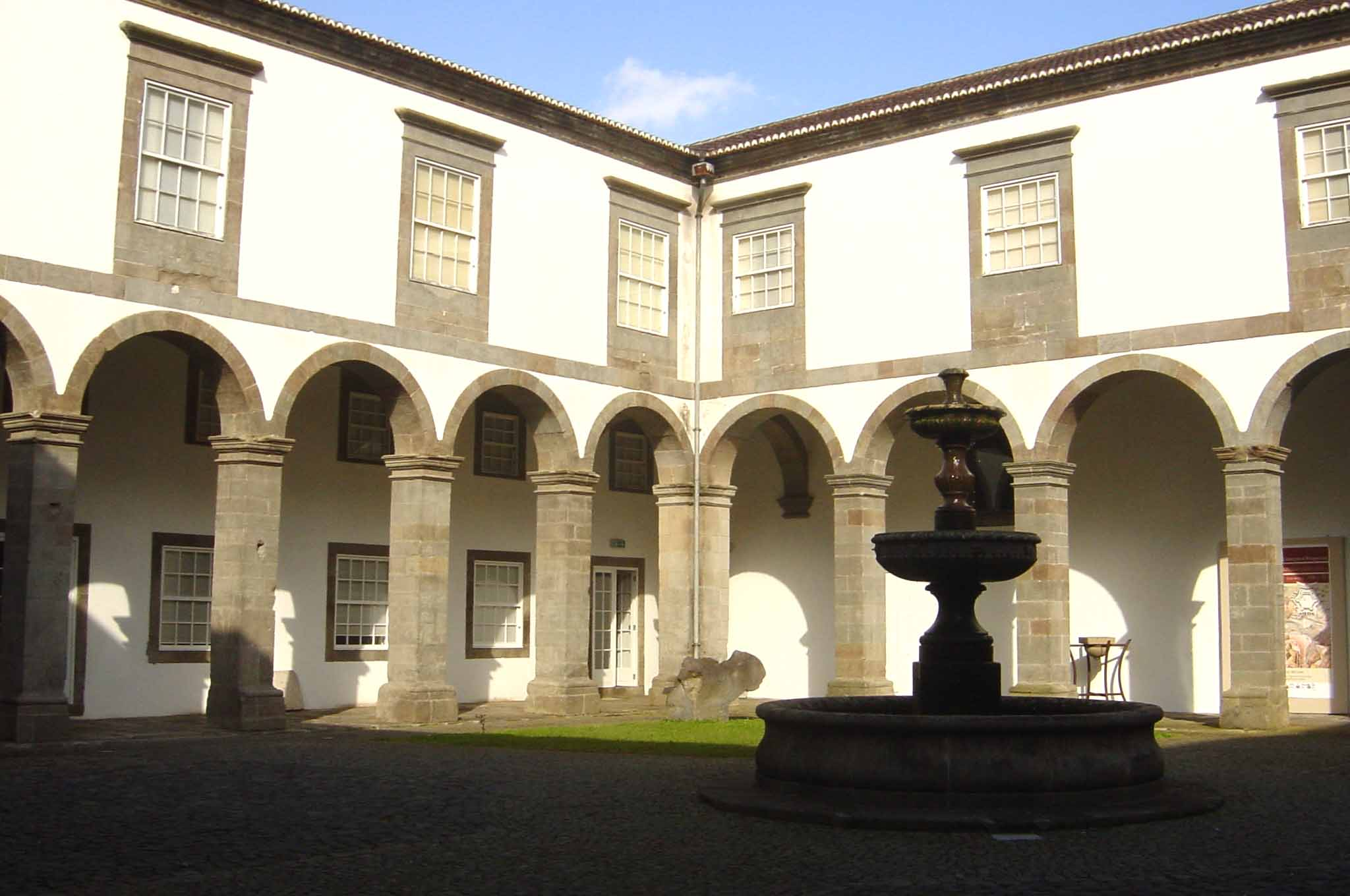 Clauster of the Church of Nossa Senhora da Guia, in the Convent of São Francisco, now part of the Angra do Heroísmo Museum, Sé, Angra do Heroísmo, Terceira (Azores), Portugal